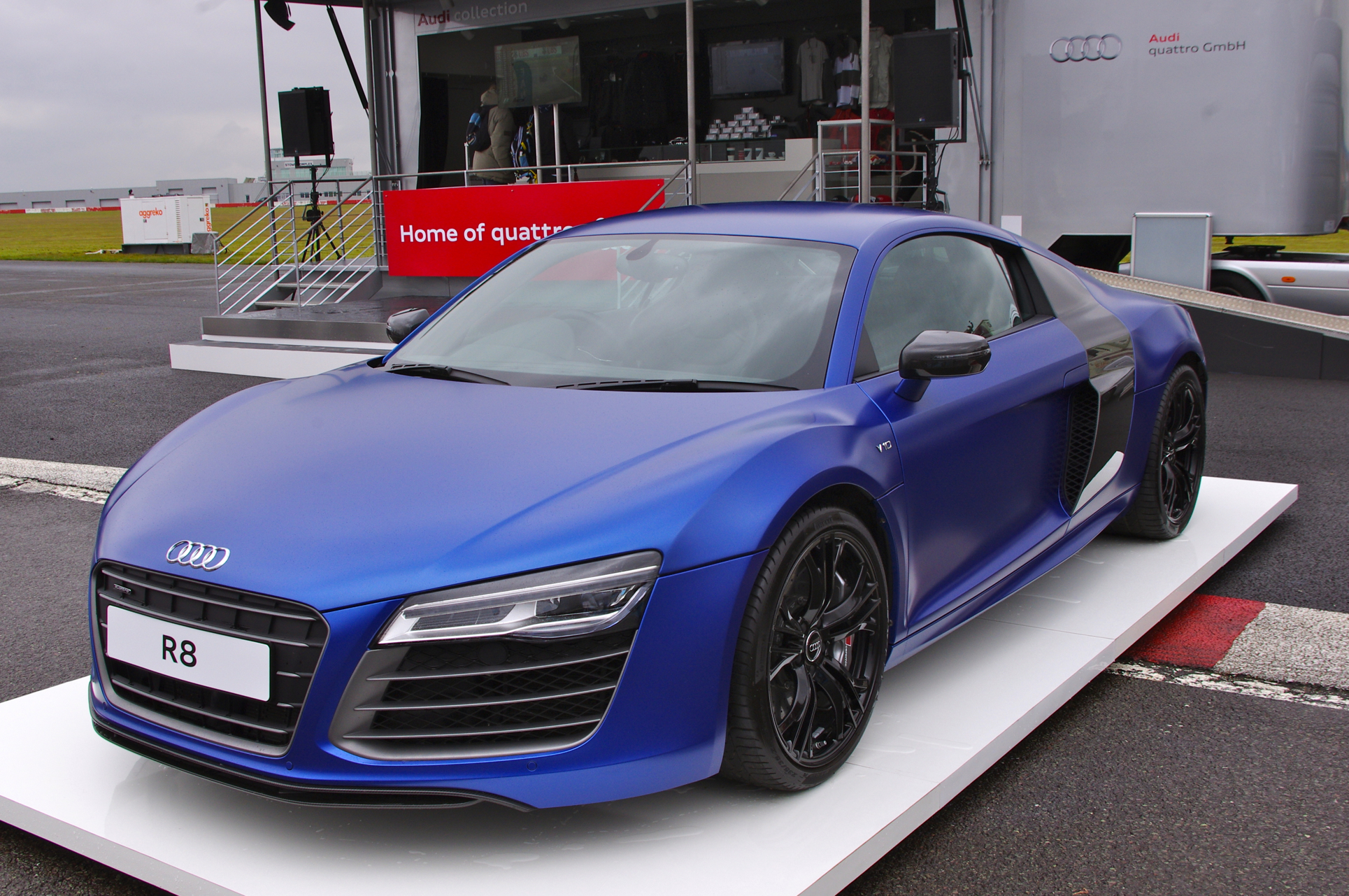 Silverstone 6 Hours 2013 FIA World Endurance Championship (WEC)